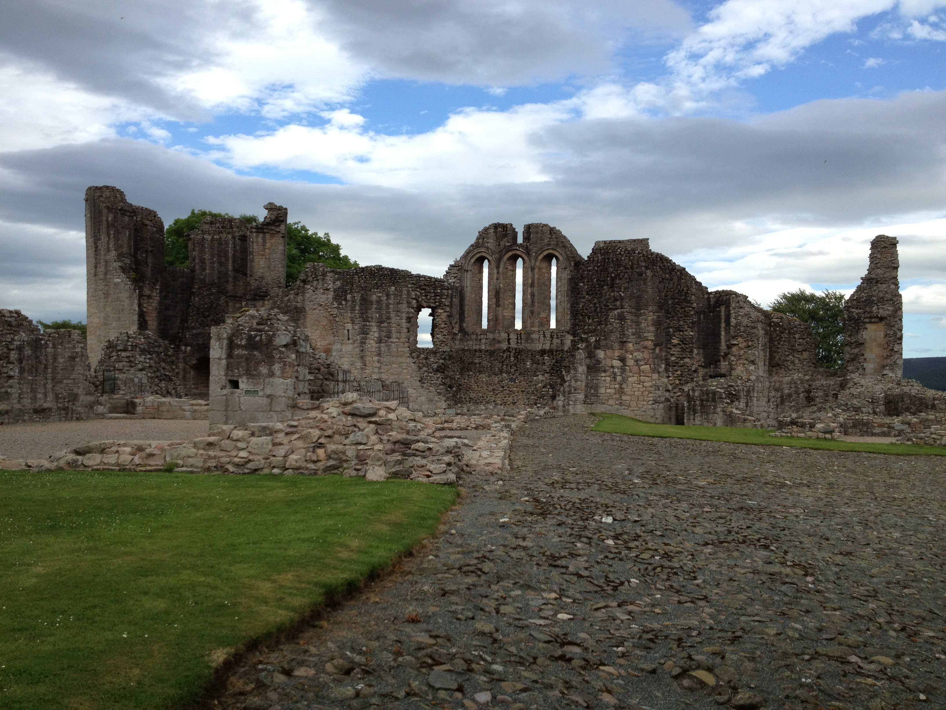 Home of the Mar's and Lady Christian de Bruce